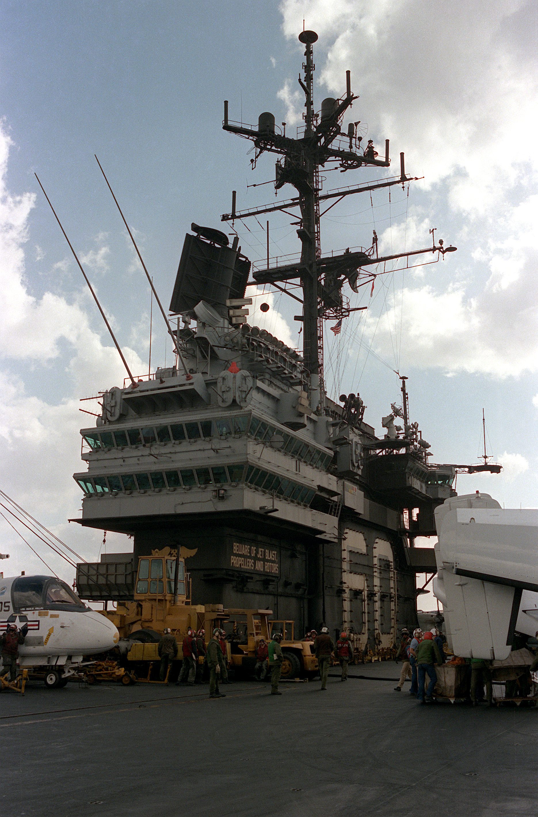 A close-up view of the island of the aircraft carrier USS SARATOGA (CV-60) during flight operations.